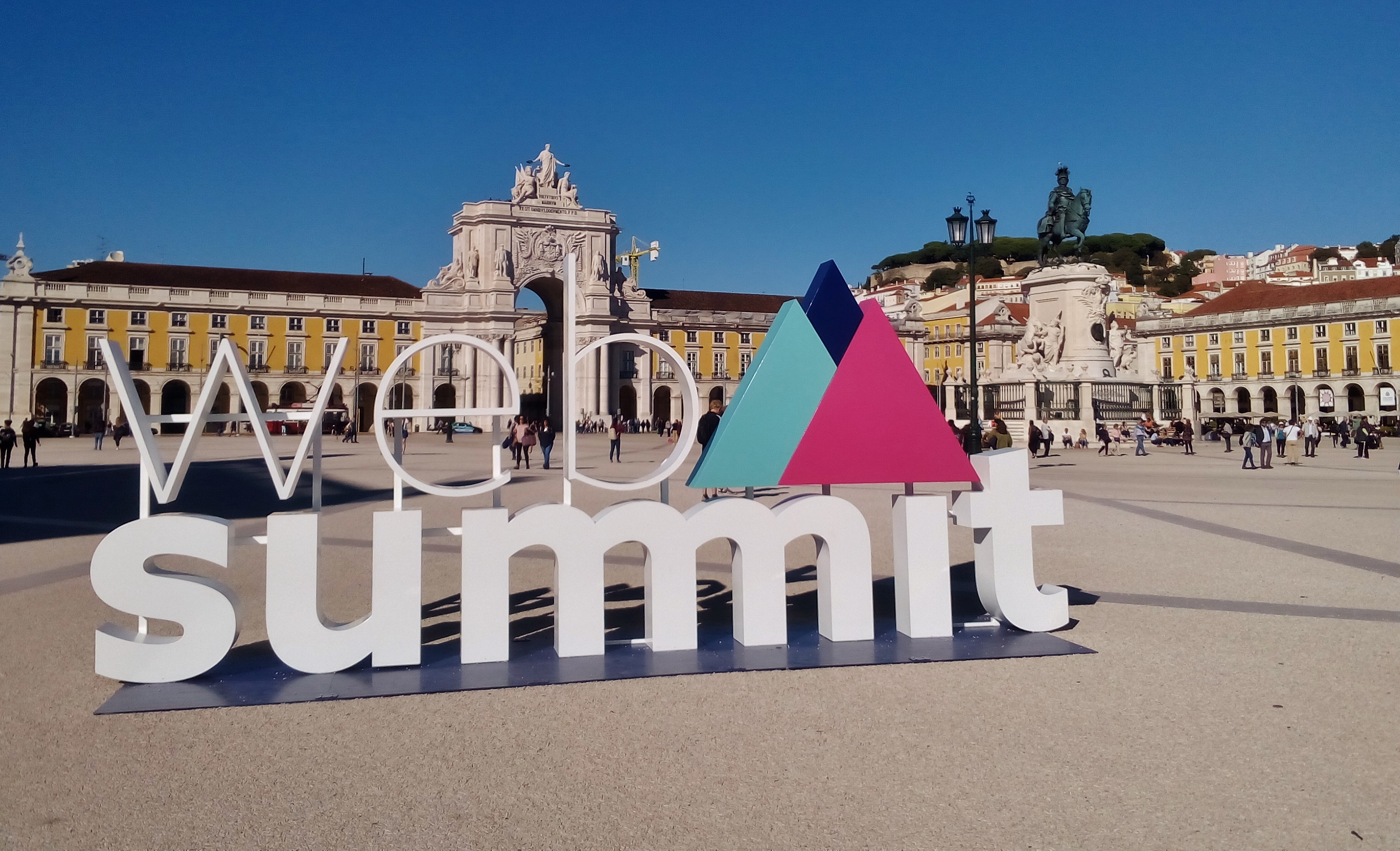 WebSummit sign on the Commerce Square (Praça do Comércio), in Lisbon, Portugal, on 6 November 2017.